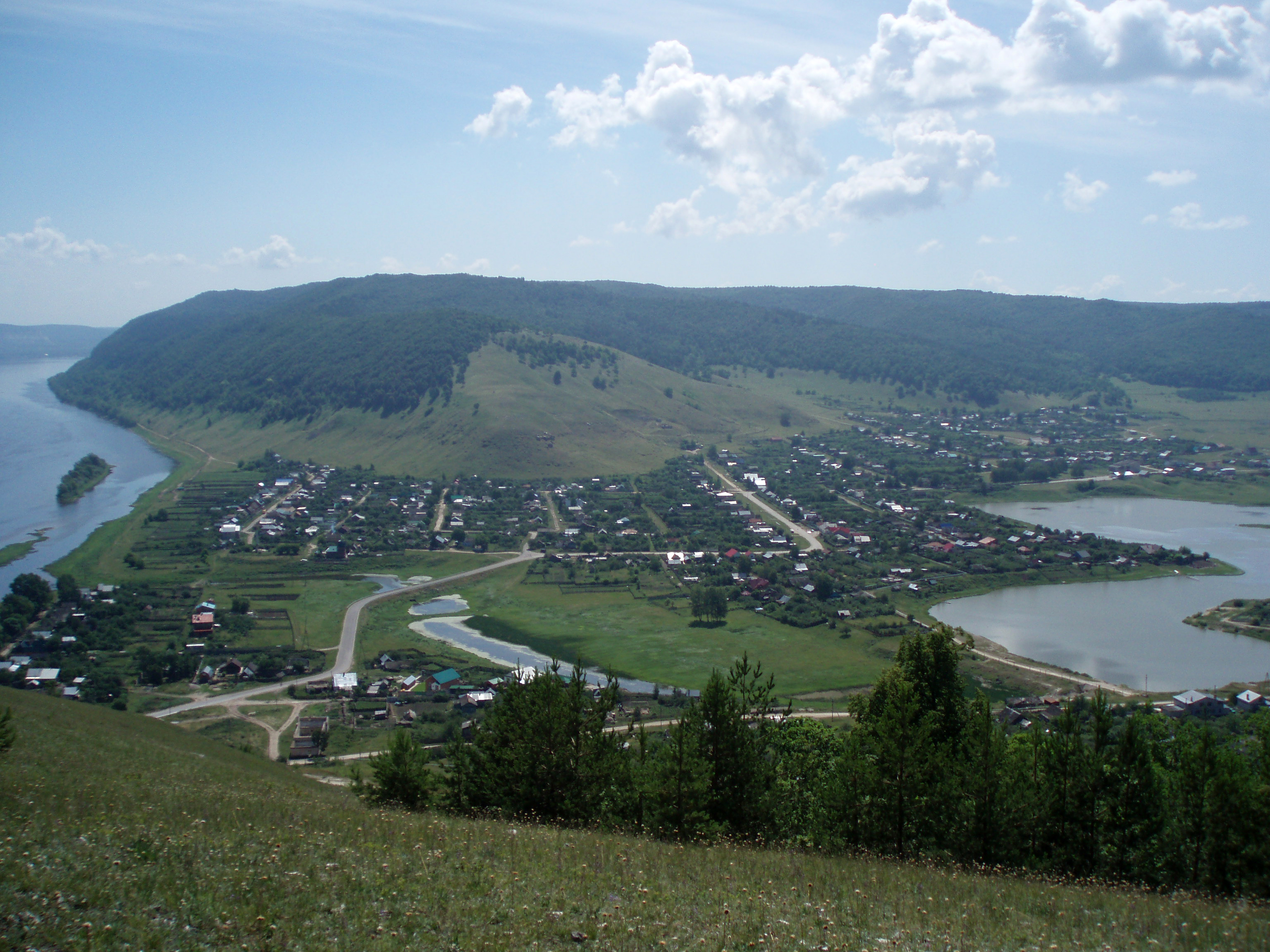 Shiryaevo. Samara oblast, Russia